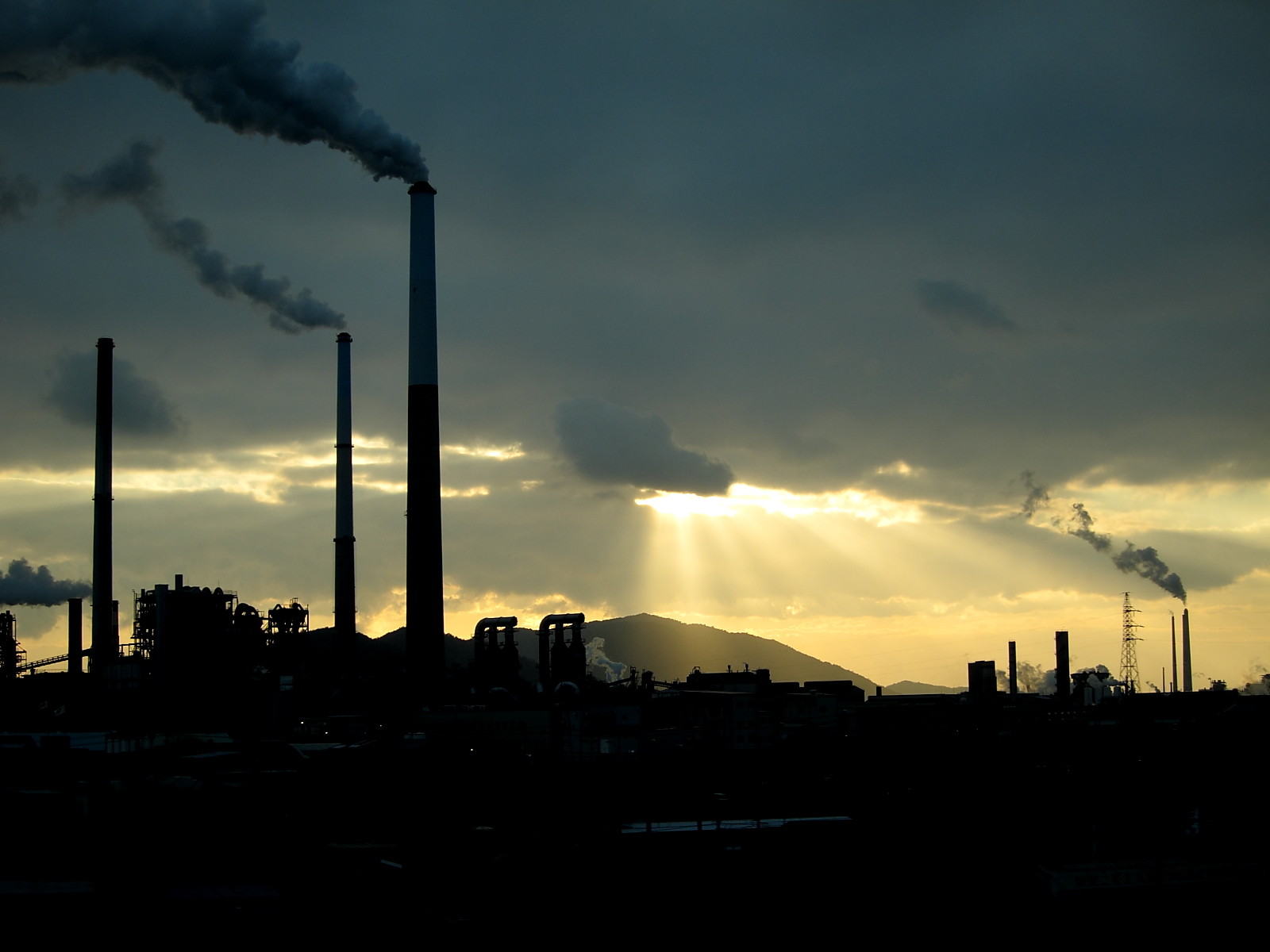 Factories of Tokuyama, Yamaguchi pref., Japan.